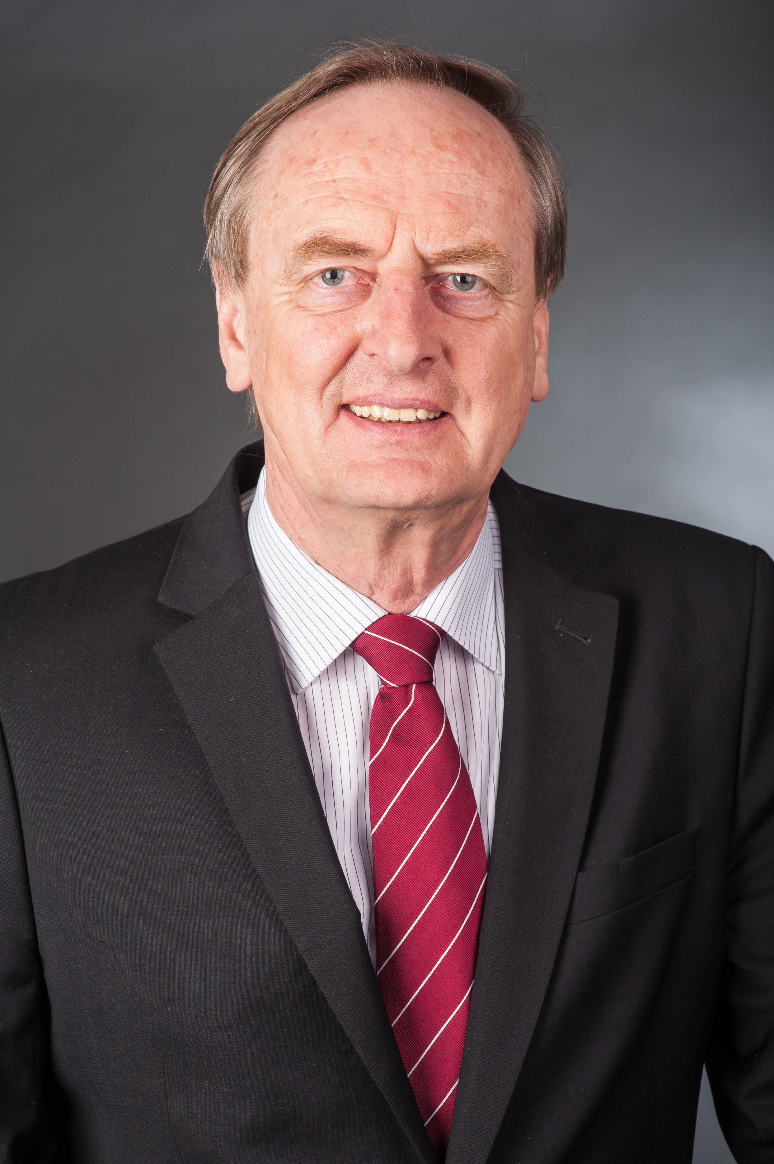 Rudolf Götz, Lower Saxon politician (SPD) and member of the 15.–17. Landtag of Lower Saxony.